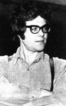 Italian writer Giuliano Scabia